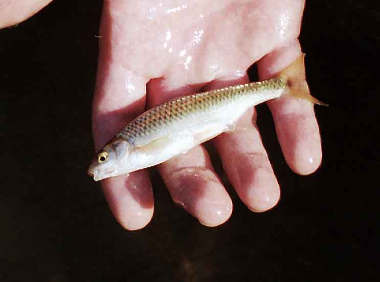 A Rovella (Rutilus rubilio) from Farma creek Tuscany, Italy. Released after photograph was taken.